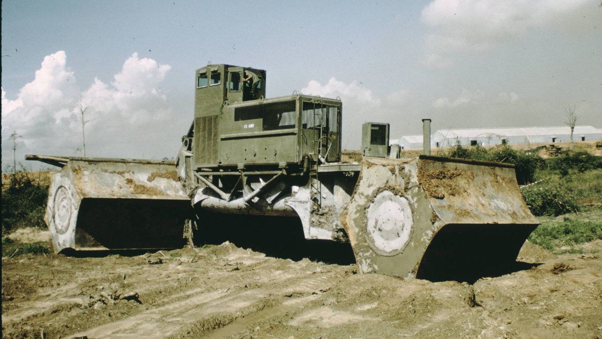 Le Tourneau tree crusher being tested at Long Binh by the 1st Logistical Command